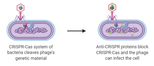 If anti-CRISPR proteins are used in phage therapy, phages can avoid CRISPR-Cas9 system of some bacteria.